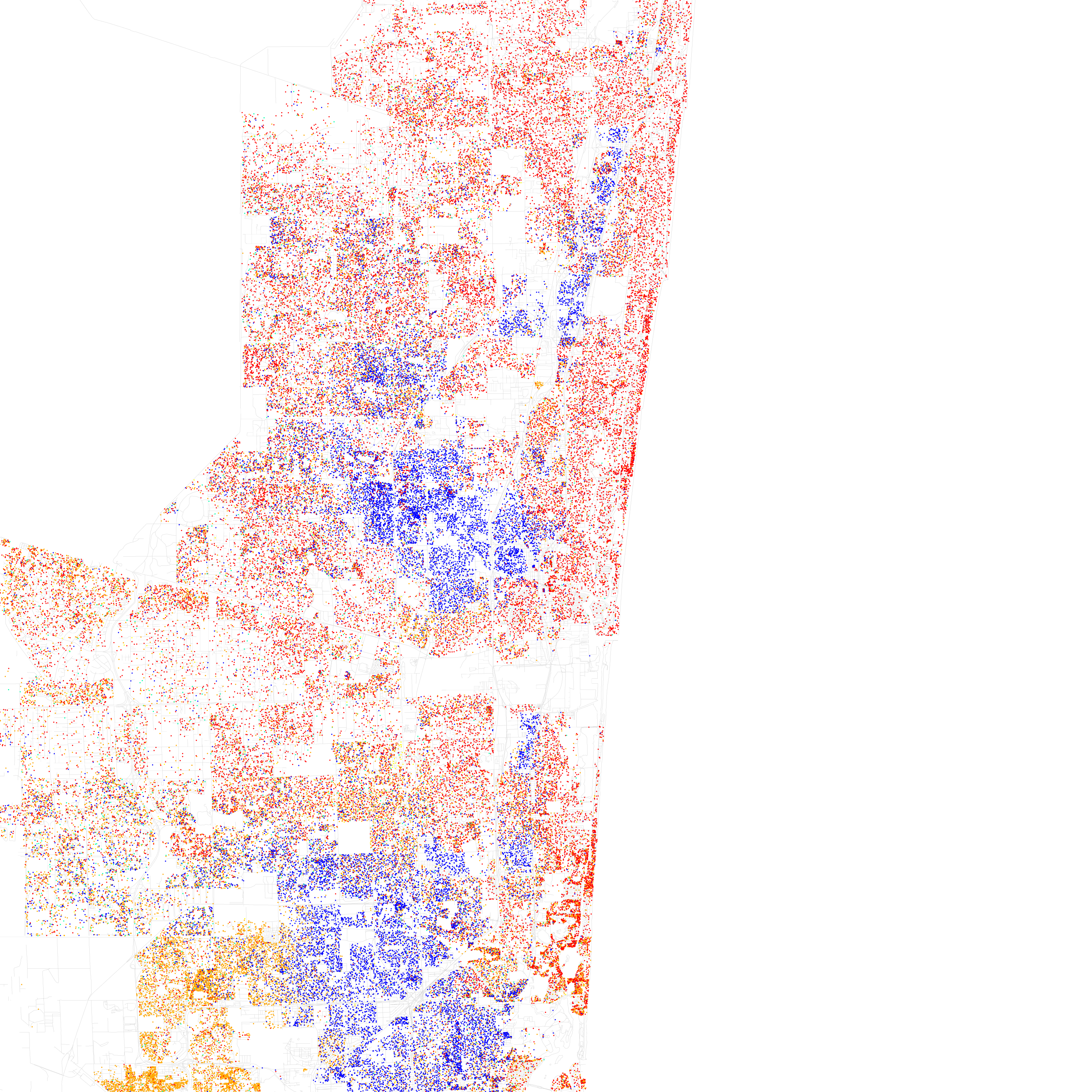 Maps of racial and ethnic divisions in US cities, inspired by Bill Rankin's map of Chicago, updated for Census 2010. Red is White, Blue is Black, Green is Asian, Orange is Hispanic, Yellow is Other, and each dot is 25 residents. Data from Census 2010. Base map © OpenStreetMap, CC-BY-SA